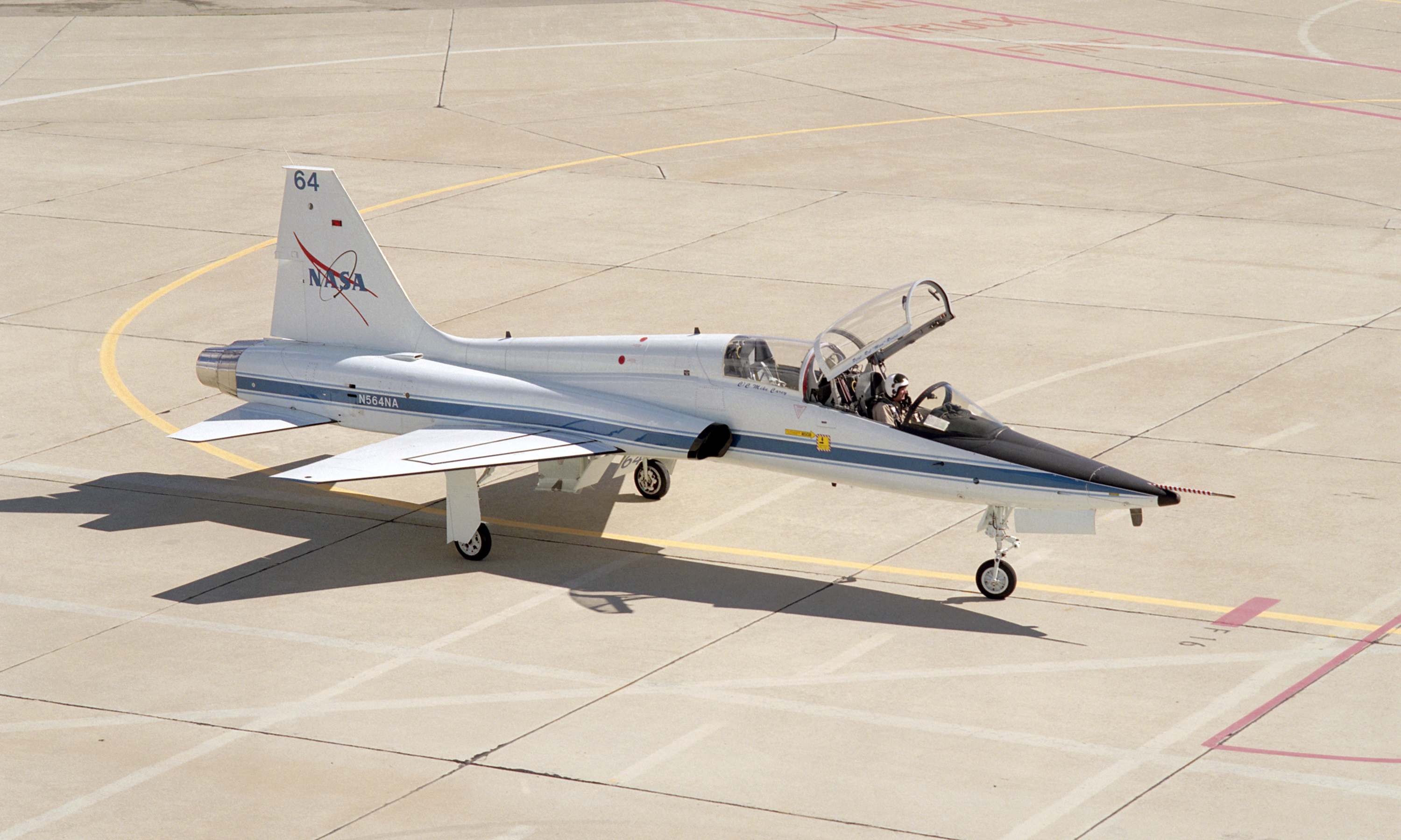 Pilot Gordon Fullerton taxies NASA Dryden's "newest" mission support aircraft, a T-38 Talon, into position on the ramp upon its arrival on February 24, 2005.